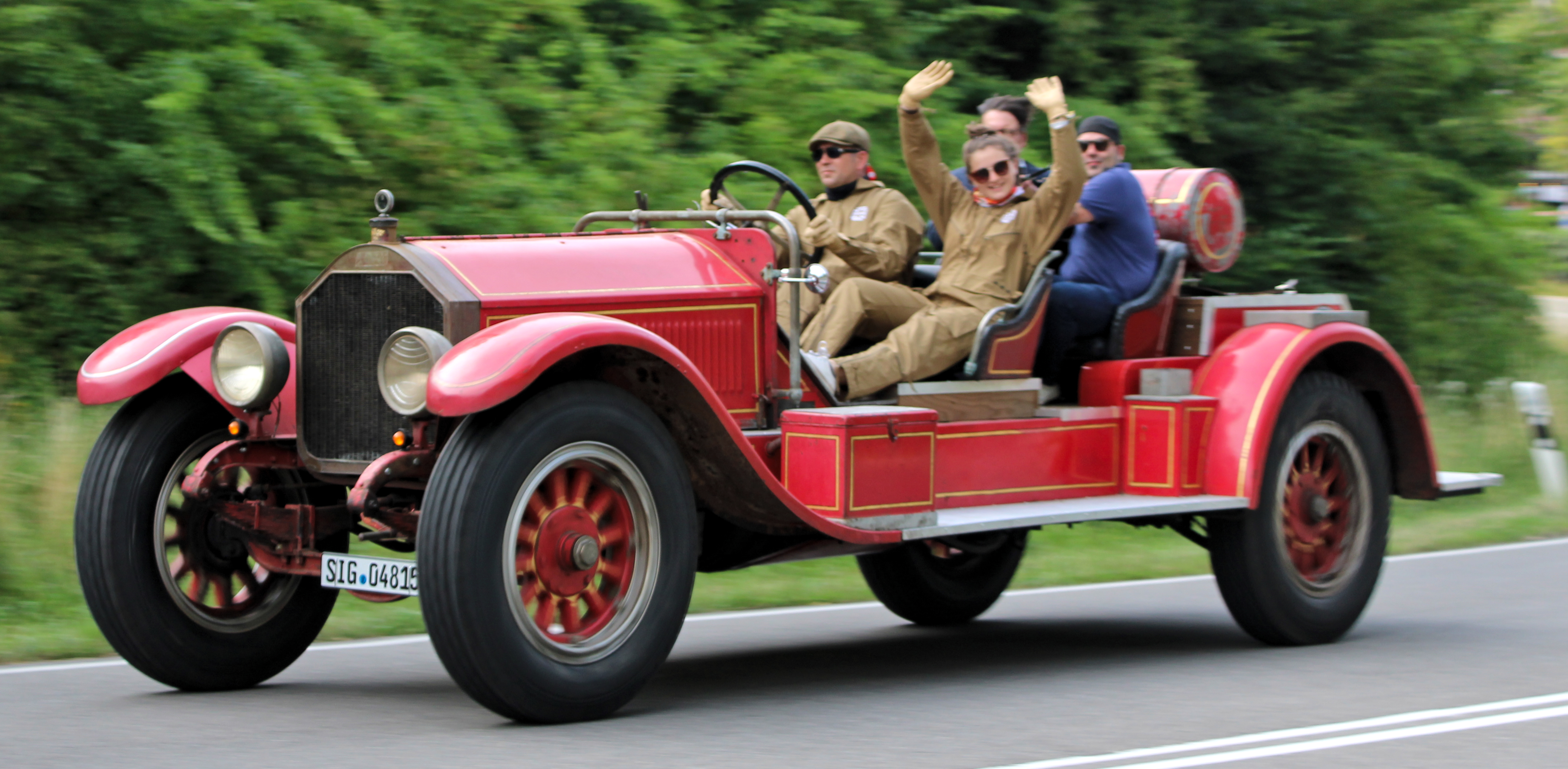 American La France Typ 38 (1926) at Solitude Revival 2019